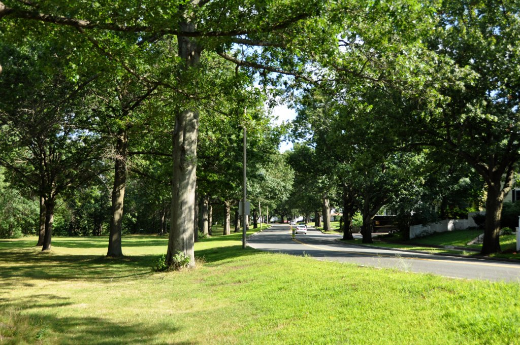 The scenic and historic Mystic Valley Parkway in northeastern Arlington, Massachusetts.